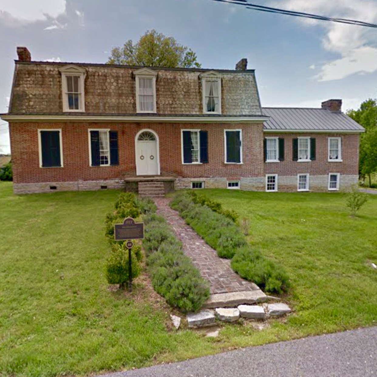 Photo of Rocky Point Manor, a historic home in Harrodsburg, KY.